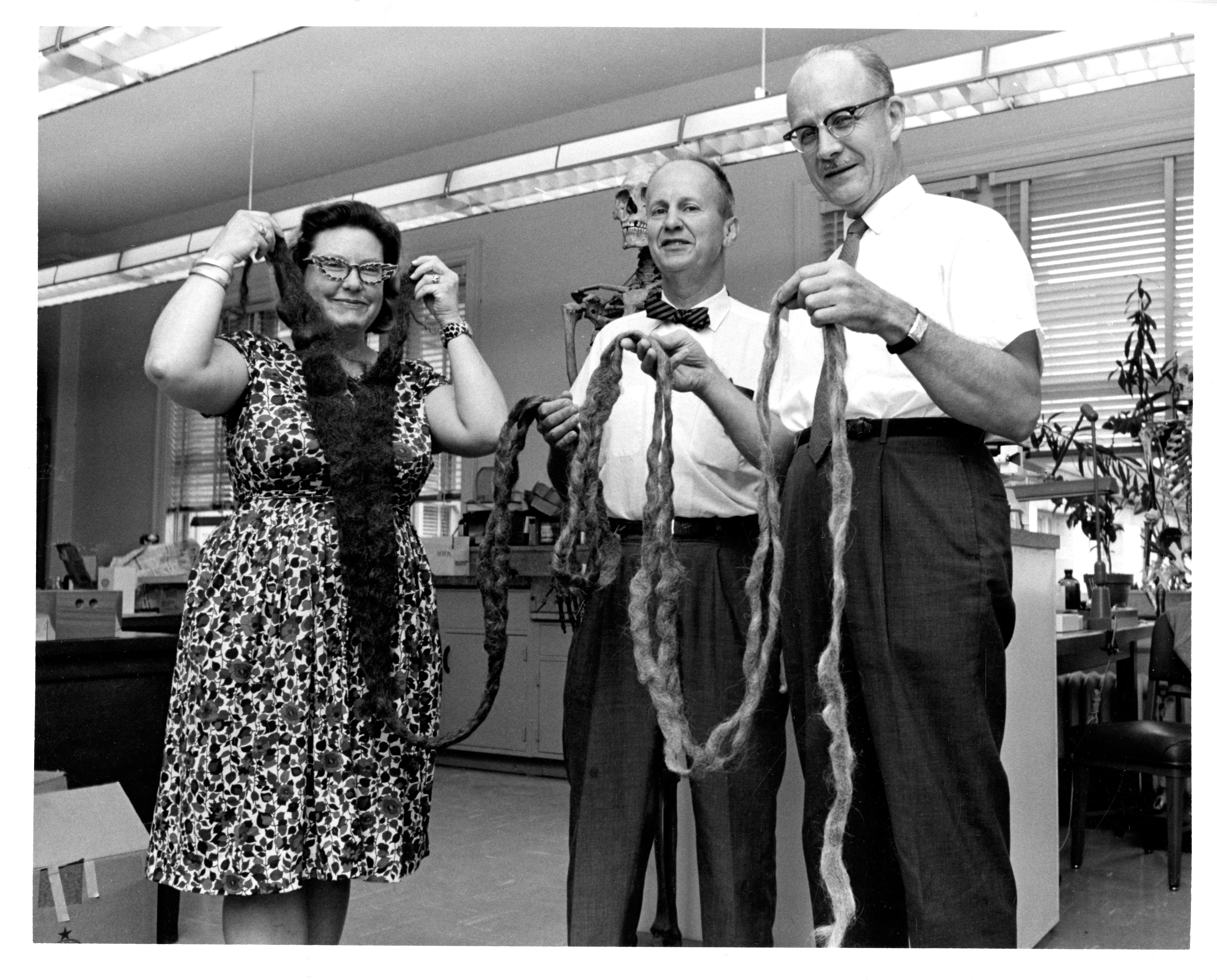 Creator: Smithsonian Institution Office of Public Affairs Subject: St. Hoyme, Lucile Eleanor, Angel, J. Lawrence (John Lawrence), Stewart, T. D (Thomas Dale) 1901-1997, National Museum of Natural History (U.S.) Dept. of Anthropology Type: Black-and-white photographs Date: 1967 Topic: Women scientists, Anthropology Local number: SIA RU000371 [SIA2009-2059] Summary: National Museum of Natural History physical anthropologists Lucille St. Hoyme (1924-2001), J. Lawrence Angel (1915-1986), and Thomas Dale Stewart (1901-1997) hold a seventeen and one half foot long beard found in a North Dakota attic. St. Hoyme began her career at the Smithsonian as a clerk and stenographer in 1942. She was promoted to curator in 1964, retiring in 1982 and continuing in emeritus status until shortly before her death. St. Hoyme studied variations of human traits from region to region and over time. Cite as: RU 371 - Smithsonian Institution, Office of Public Affairs, The Torch, 1955-1960, 1965-1988, Smithsonian Institution Archives Persistent URL: Repository: Smithsonian Institution Archives View more collections from the Smithsonian Institution.